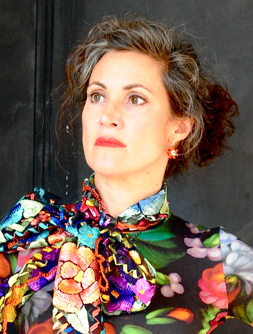 Portrait Justine del Corte